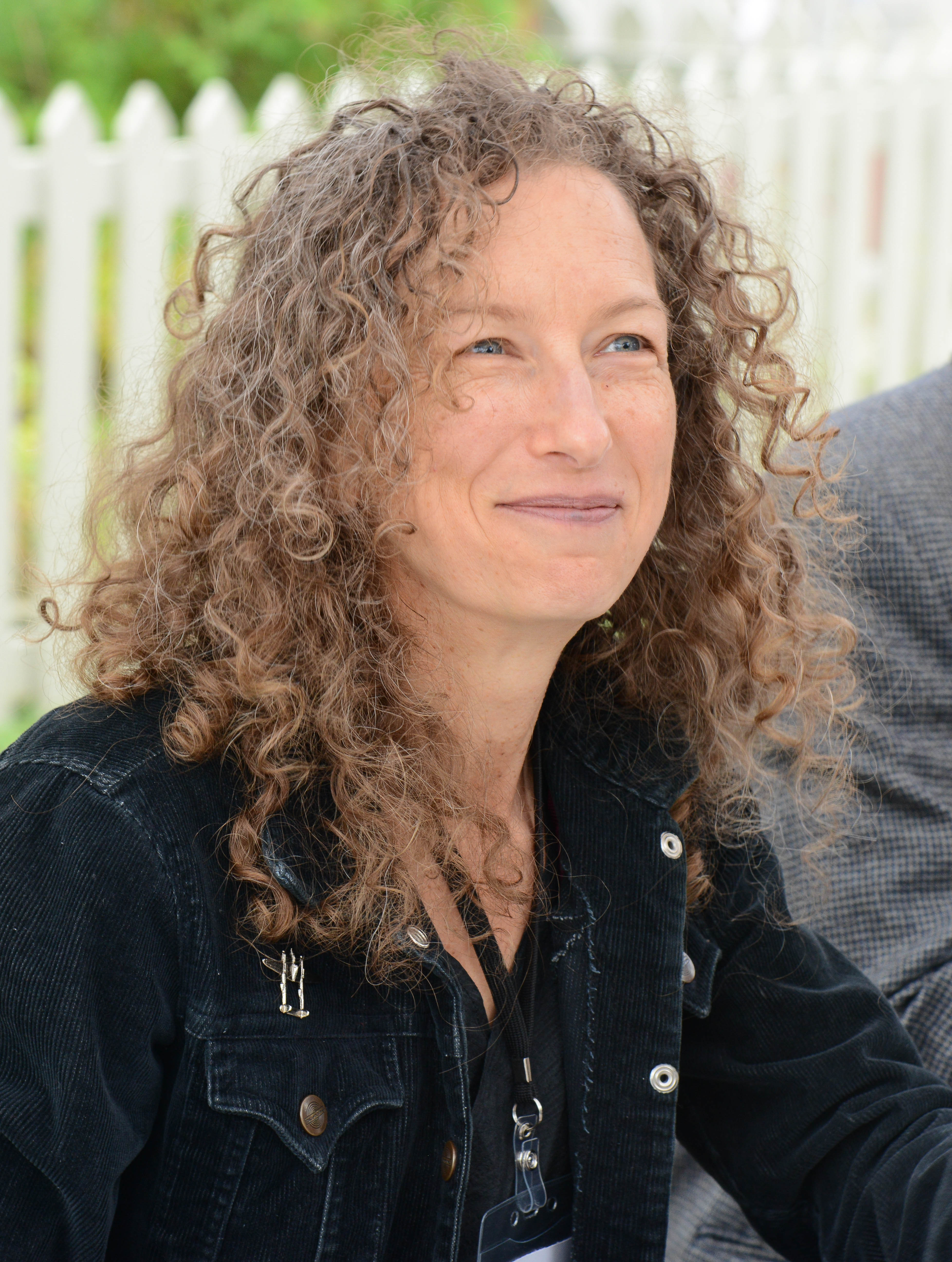 Ania Szabo at the Eden Mills Writers Festival in 2013